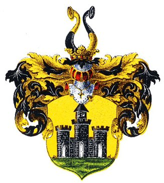 Coat of arms of Patkul family